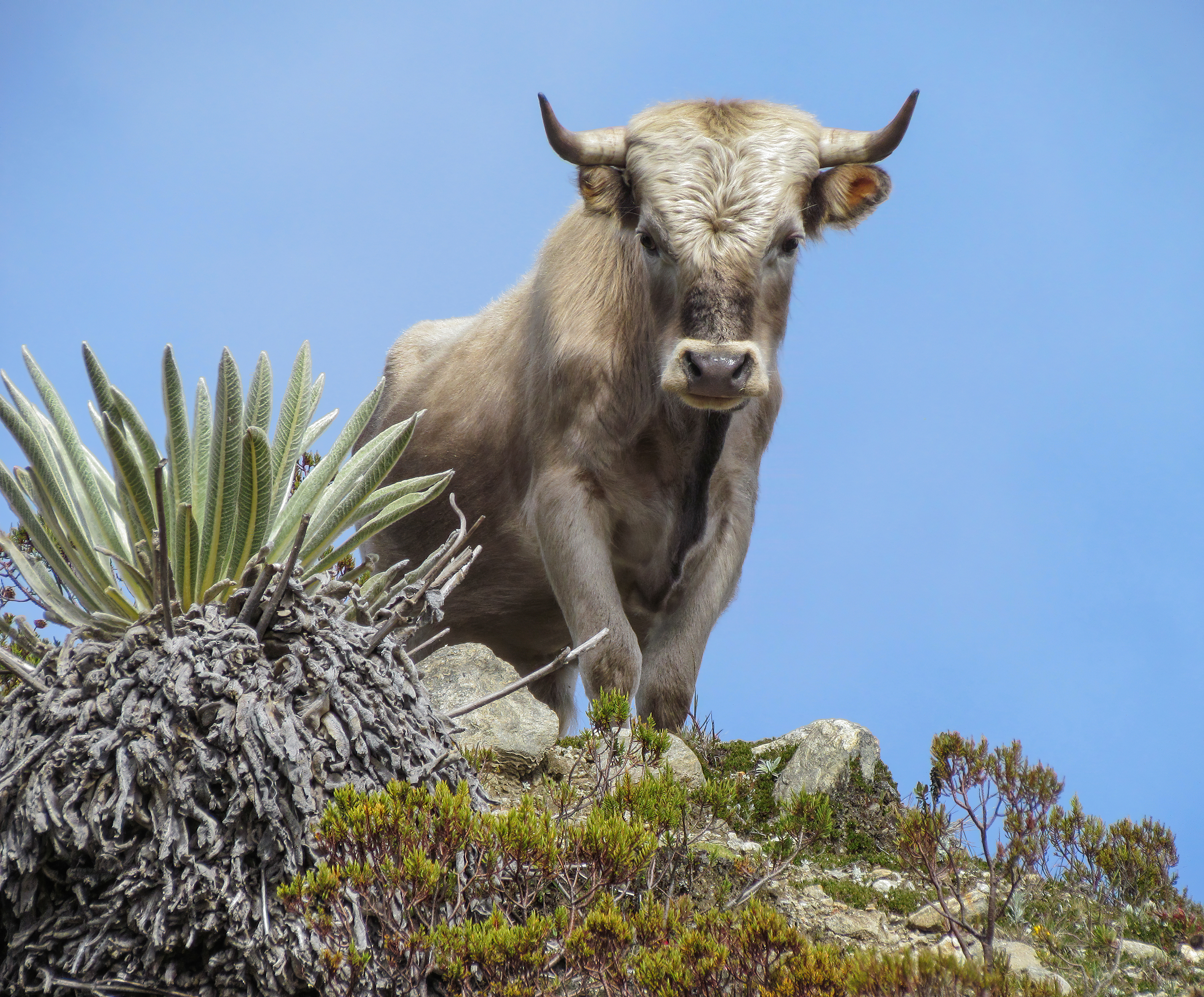 Feral Charolais bull at 4600 meters above sea level, in Sierra Nevada de Mérida, Venezuela.